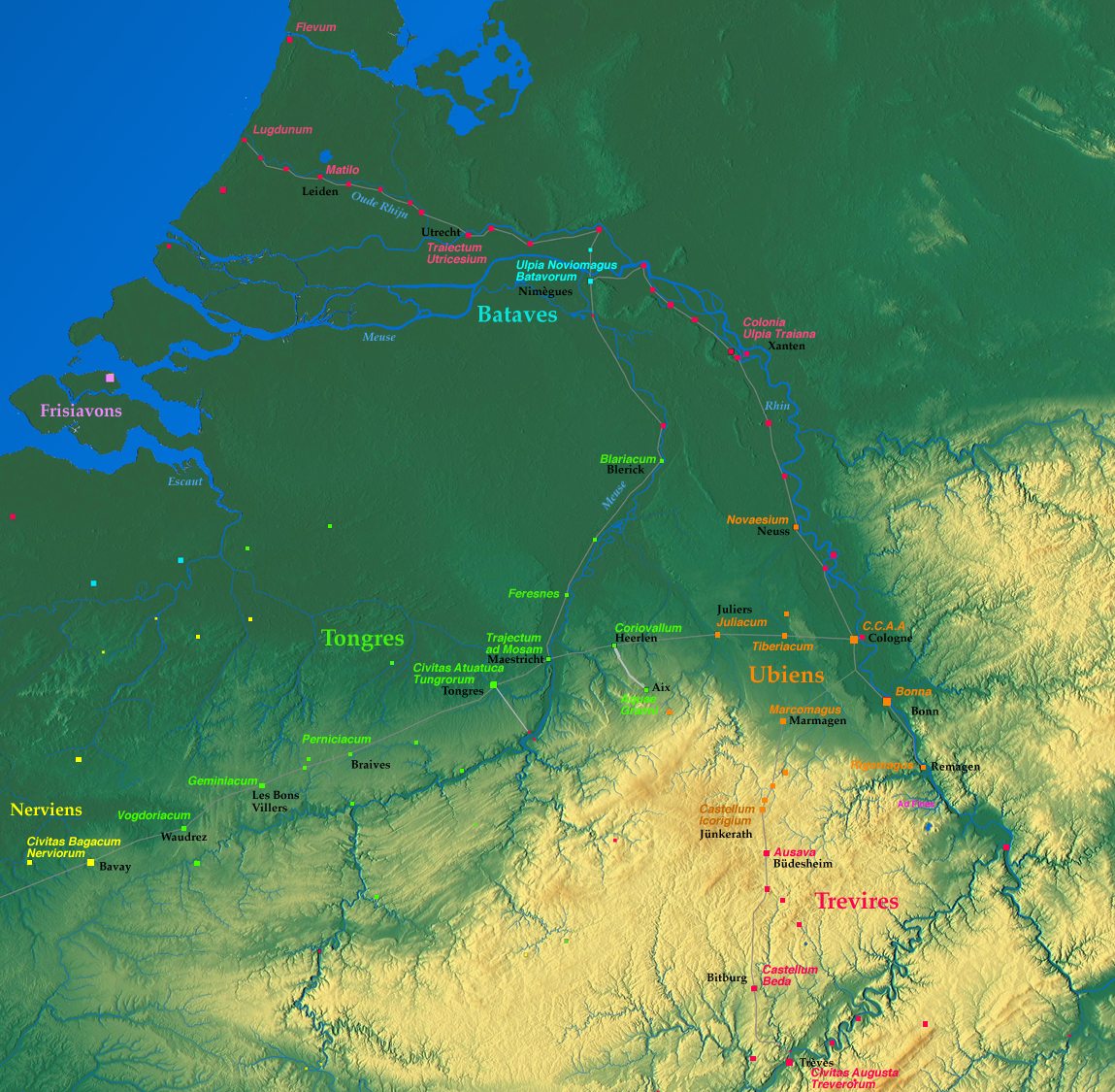 Map of de la Germania inférior